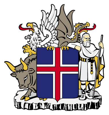 Coat of arms of Iceland.